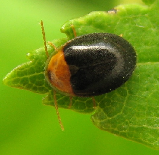 Marsh beetle, Sacodes thoracica. Blue Ridge Parkway, Old Logging Railroad , Virginia, USA.